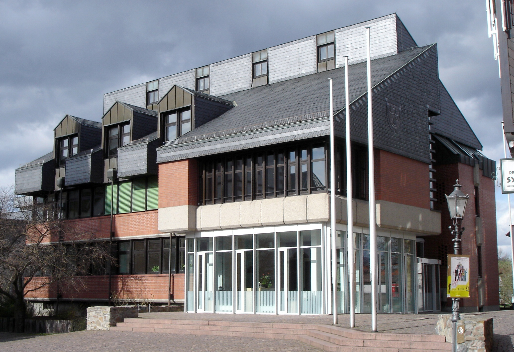 New townhall in Mörlenbach/Germany